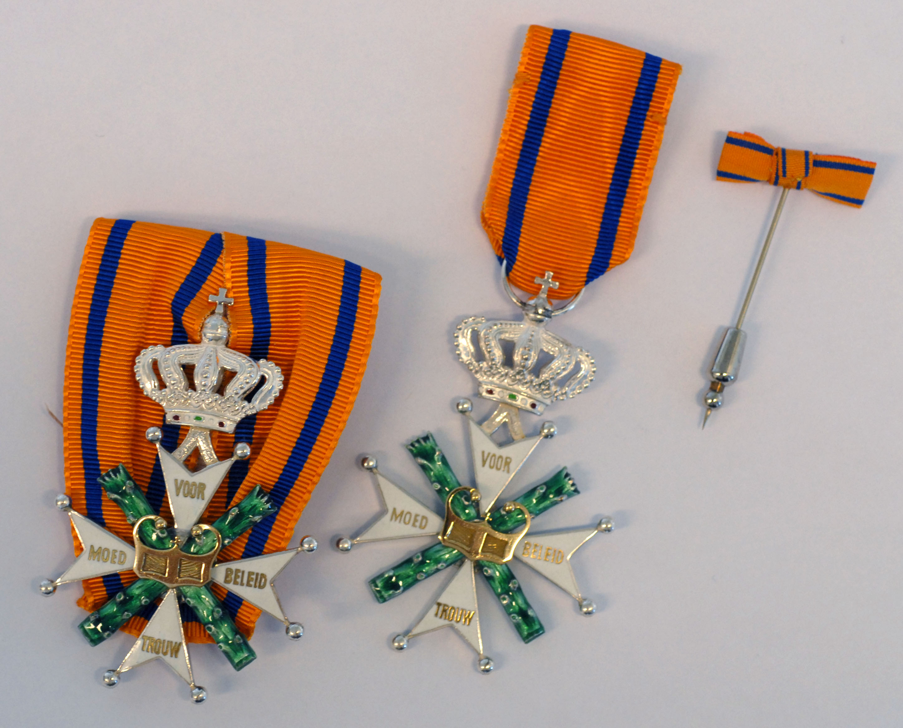 Military William Order, Knight 4th Class badges with ribbons and lapel ribbon bar (post 2000 model).